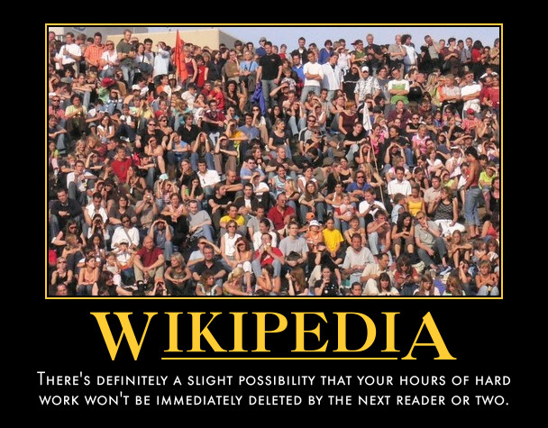 A demotivational poster for Wikipedia editors!